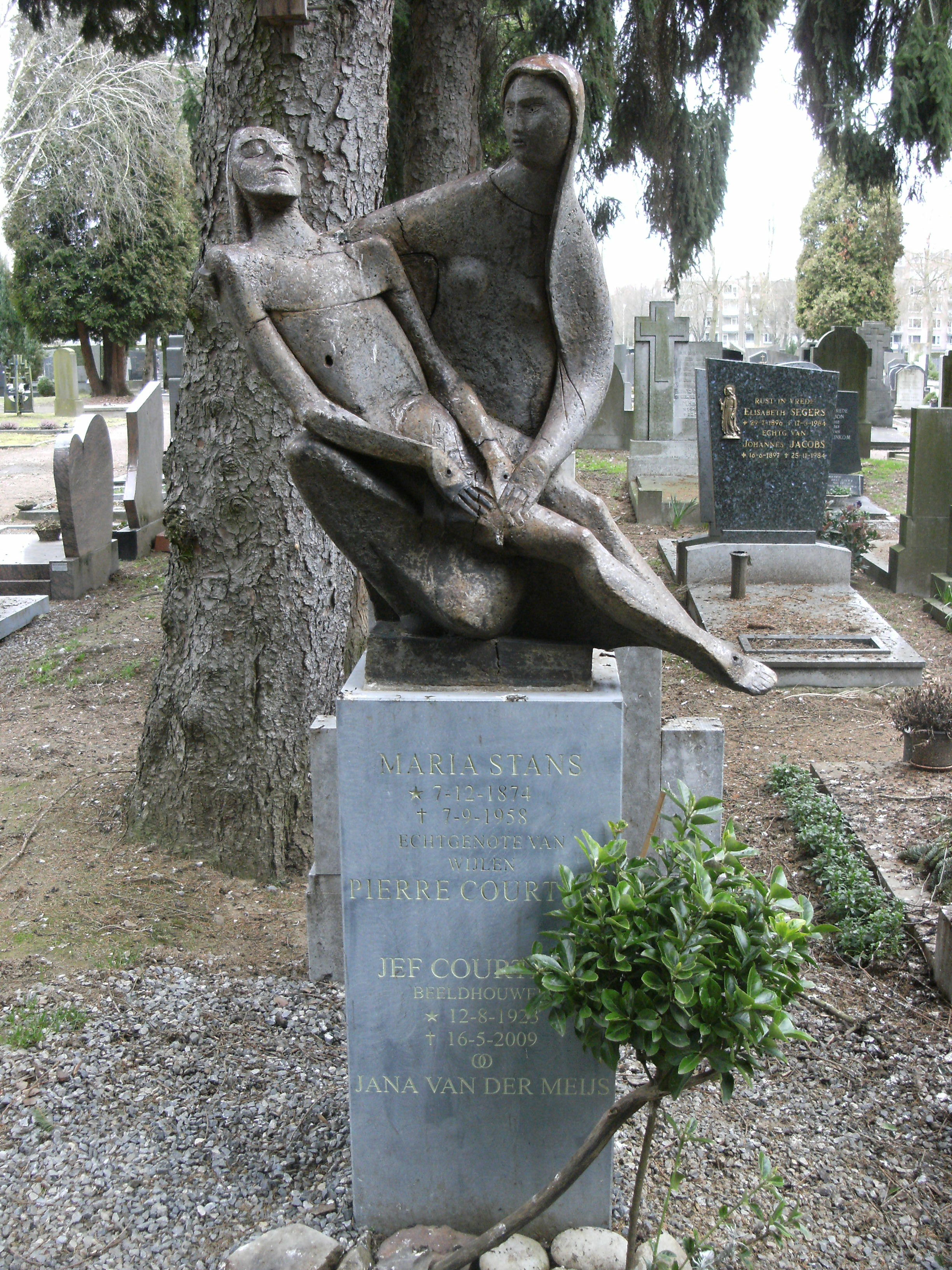 Courtens grave at cemetery in Maastricht.